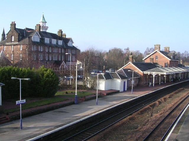 Dumfries Railway Station and Station Hotel